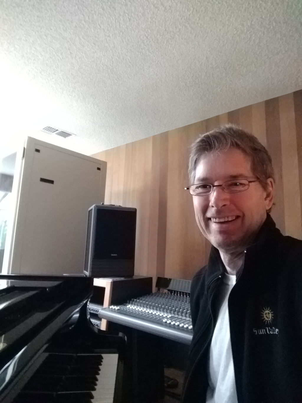 A selfie taken by Tim Gemmill